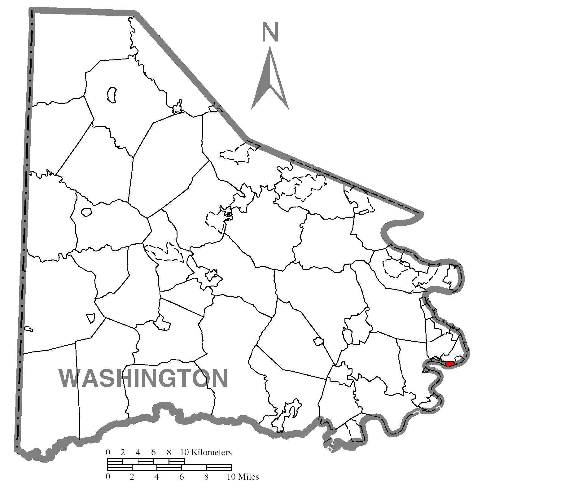 Map of Washington County highlighting Roscoe.